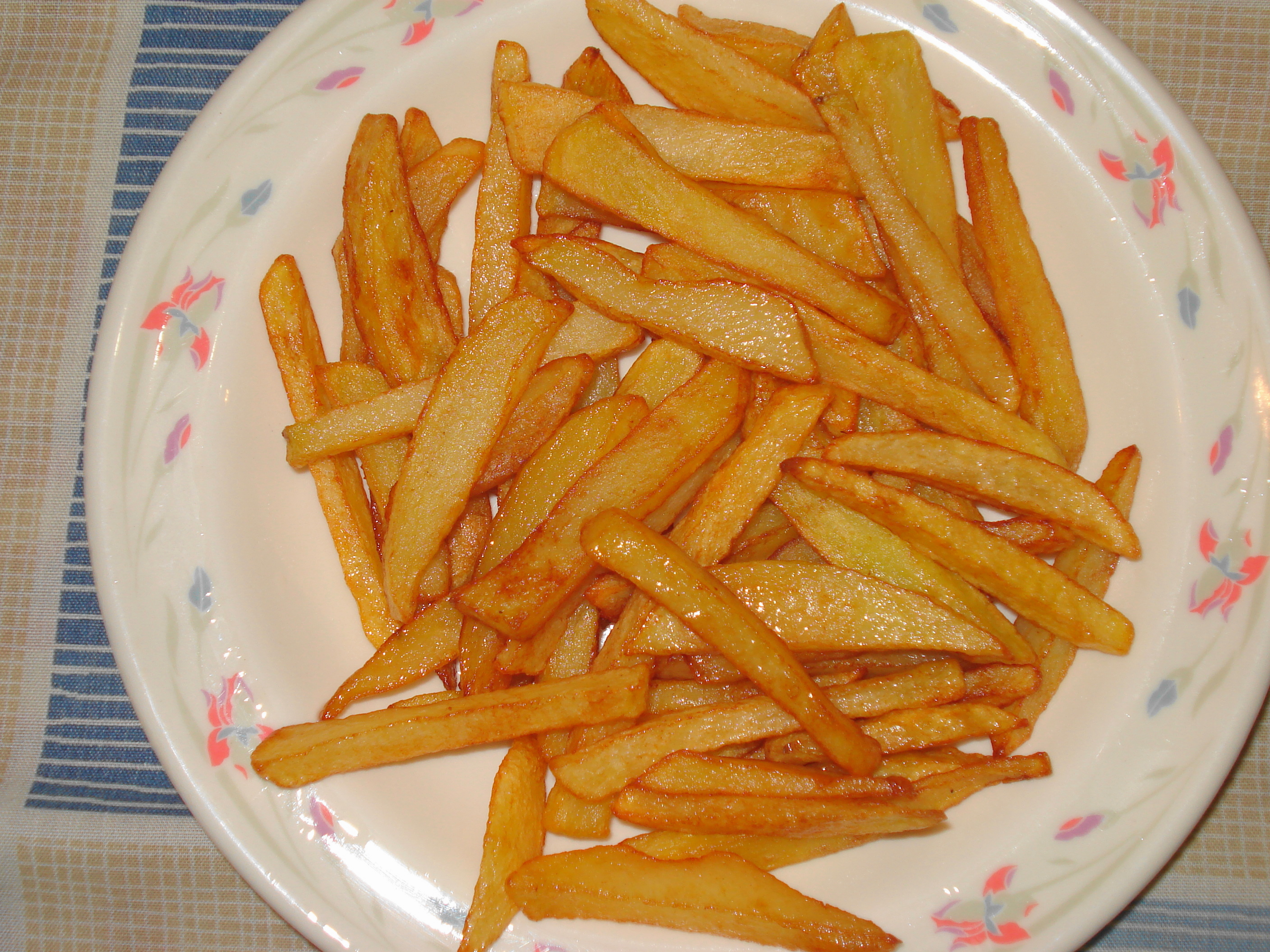 Aaloo ke chips or French Fries are popular in children and youths